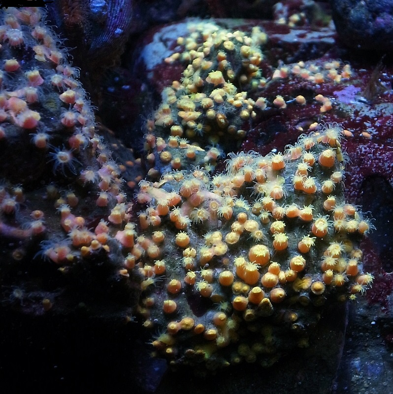 Rhizopsammia minuta en acuario de Puerto Nagoya